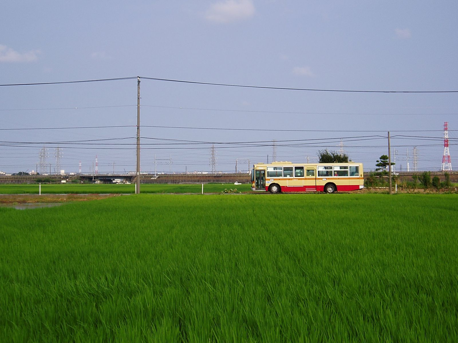 The bus which runs in a rural landscape at Hiratsuka,Kanagawa Mitsubishi "AERO STAR"